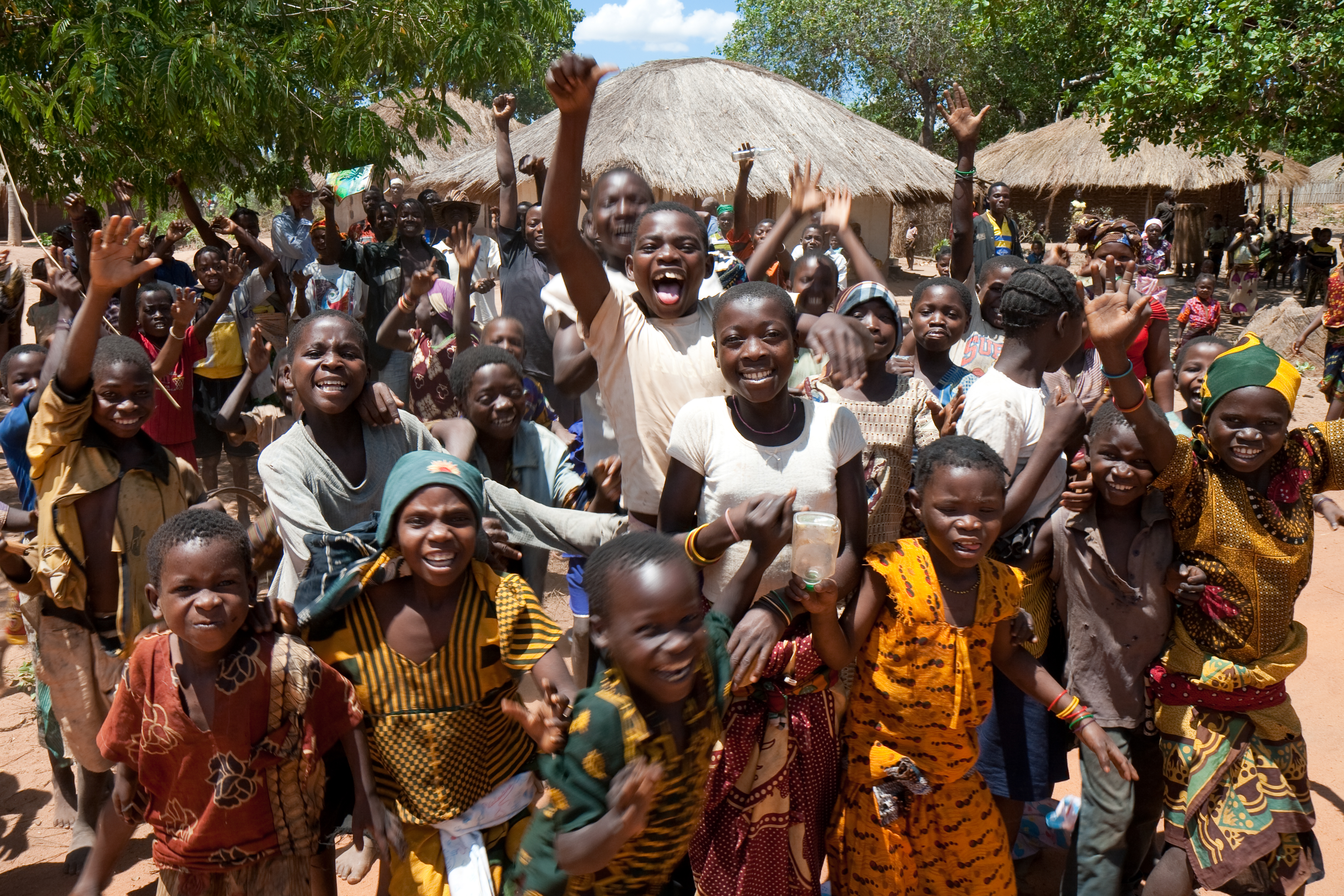 Jubilant children in the village of Nivali, Nampula, Mozambique.